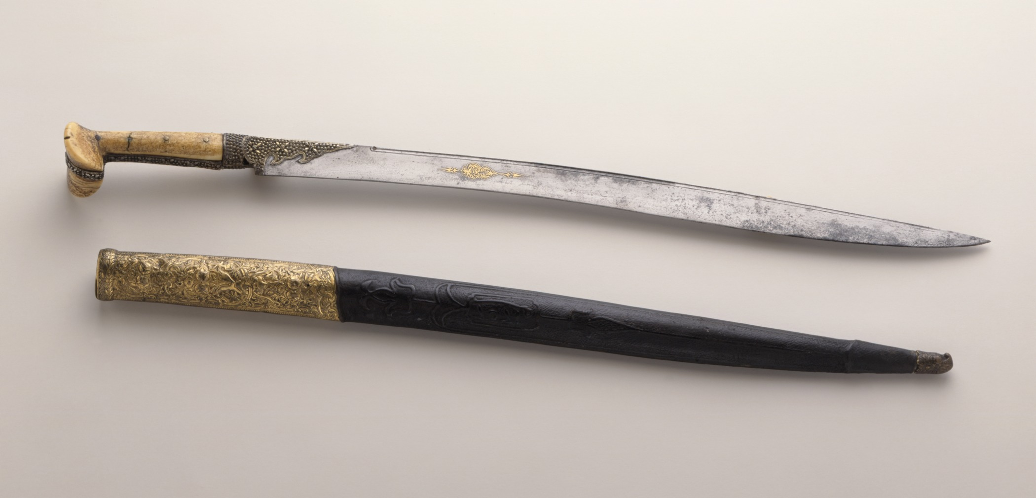 Turkey, 1727-1728/A.H. 1140 Arms and Armor; swords Steel with walrus tusk ivory, leather, incised and stamped gold The Edwin Binney, 3rd, Collection of Turkish Art at the Los Angeles County Museum of Art (M.85.237.92a-b) Islamic Art